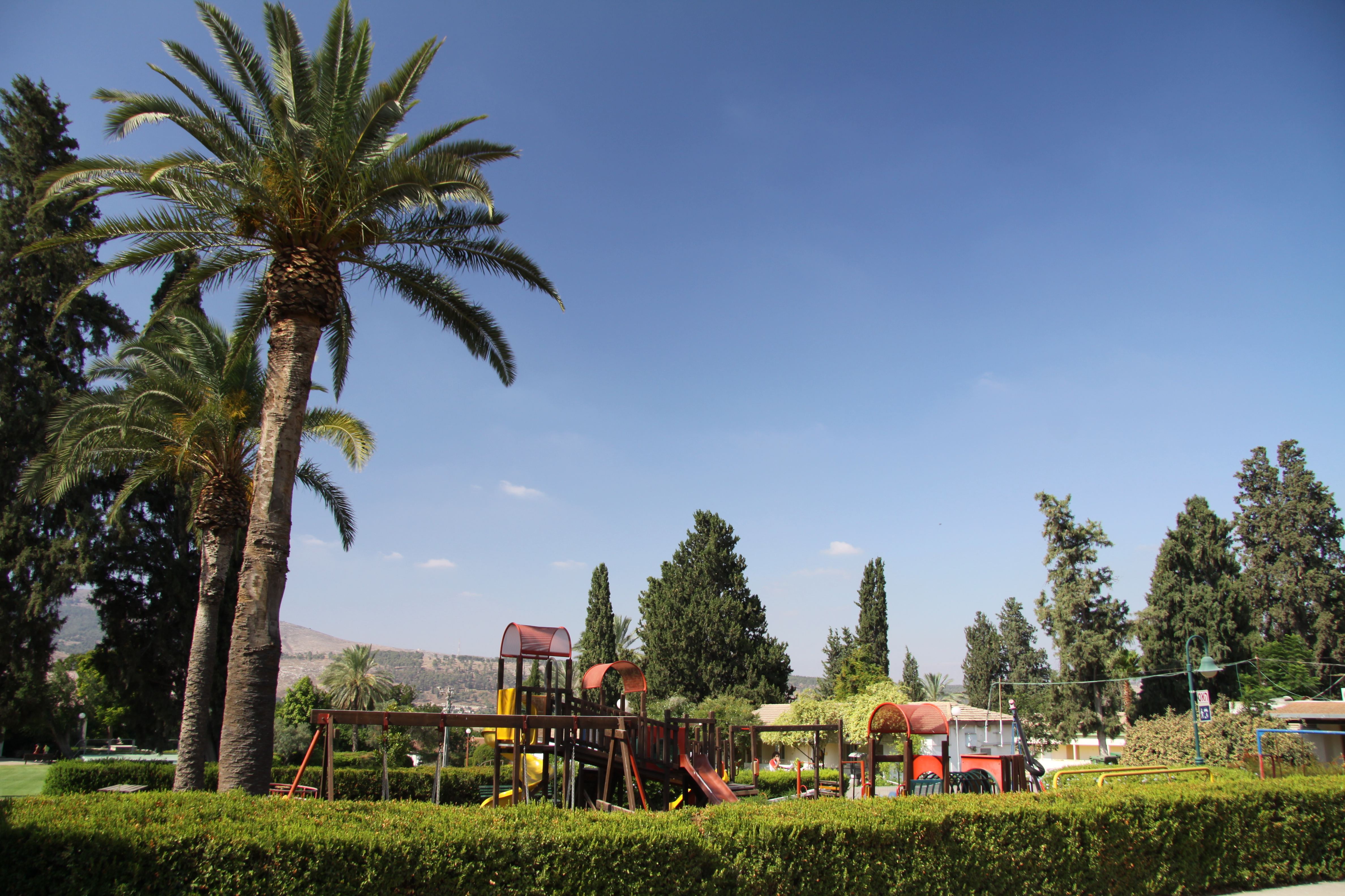 Kibbutz Geva in Israel - Google Maps - Google Earth